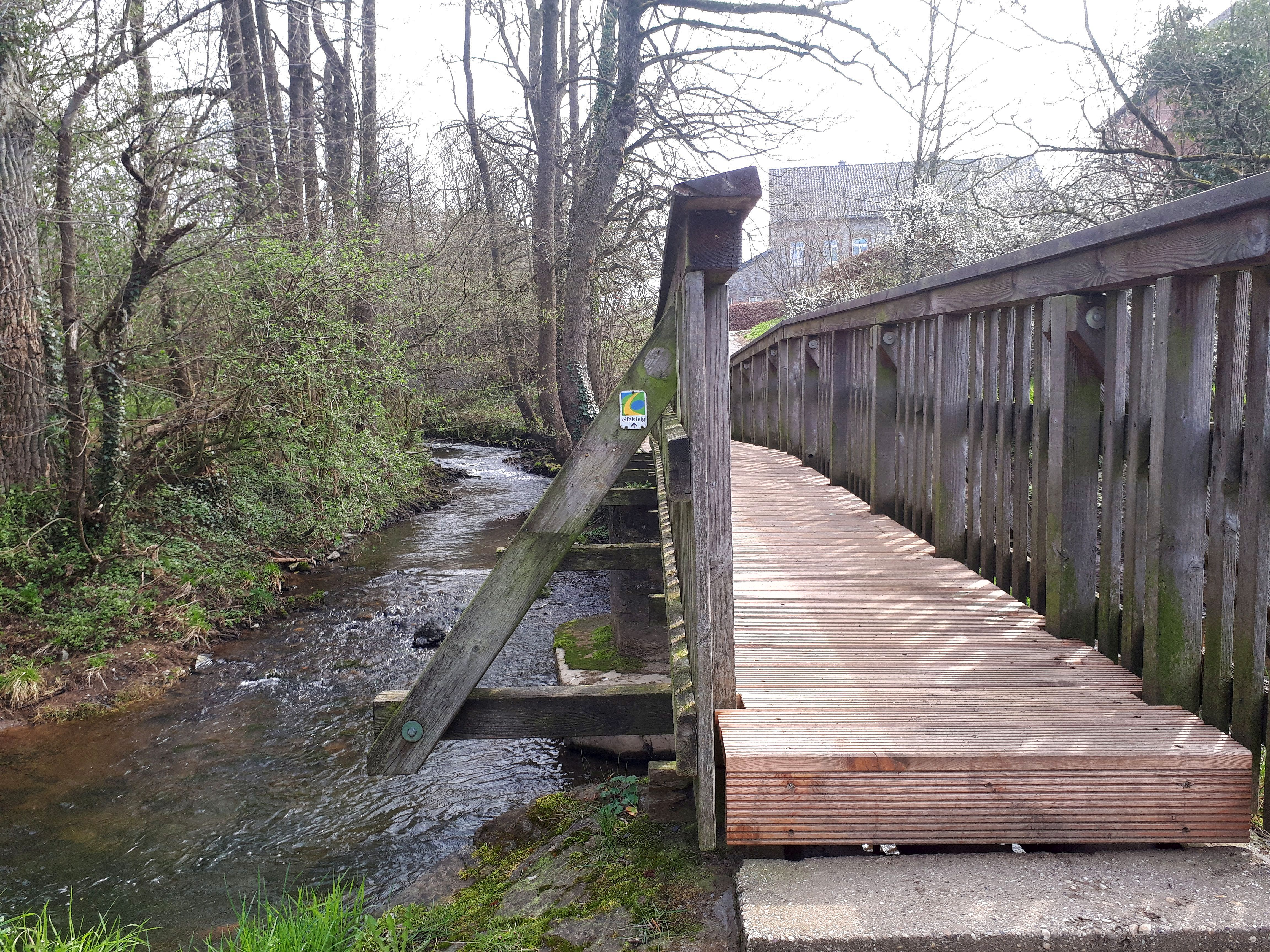 Vichtbach near its source